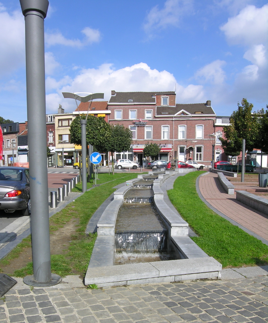 The river Lègia at Ans Belgium